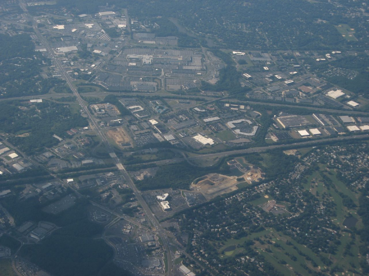 The Moorestown Mall is a shopping mall in Moorestown Township, New Jersey, owned by Pennsylvania Real Estate Investment Trust. Originally opened for business in 1963, Moorestown Mall underwent a partial renovation in 1986 and was completely renovated in 1993-94, after a serious fire damaged the northeast quarter of the mall on December 23, 1992. Prior to Rouse Co.'s purchase of the mall in December 1997, The May Co. had committed to build an upscale Lord & Taylor store, with a new Strawbridge's as anchors to the mall. In addition a Guess store joined the mall, as an upscale retailer. Nordstrom considered opening a store in South Jersey also, but they did not commit to the mall's expansion plans. In an attempt to protect the Cherry Hill Mall, a mere 3 miles (4.8 km) away, the Rouse Co. acquired the Moorestown Mall. Pennsylvania Real Estate Investment Trust acquired the Cherry Hill Mall, Echelon Mall, Moorestown Mall, Exton Square, Plymouth Meeting Mall, and Gallery at Market East on March 7, 2003. In 2011, Moorestown Township residents voted to allow liquor sales at the Moorestown Mall in order to increase revenues at the mall.